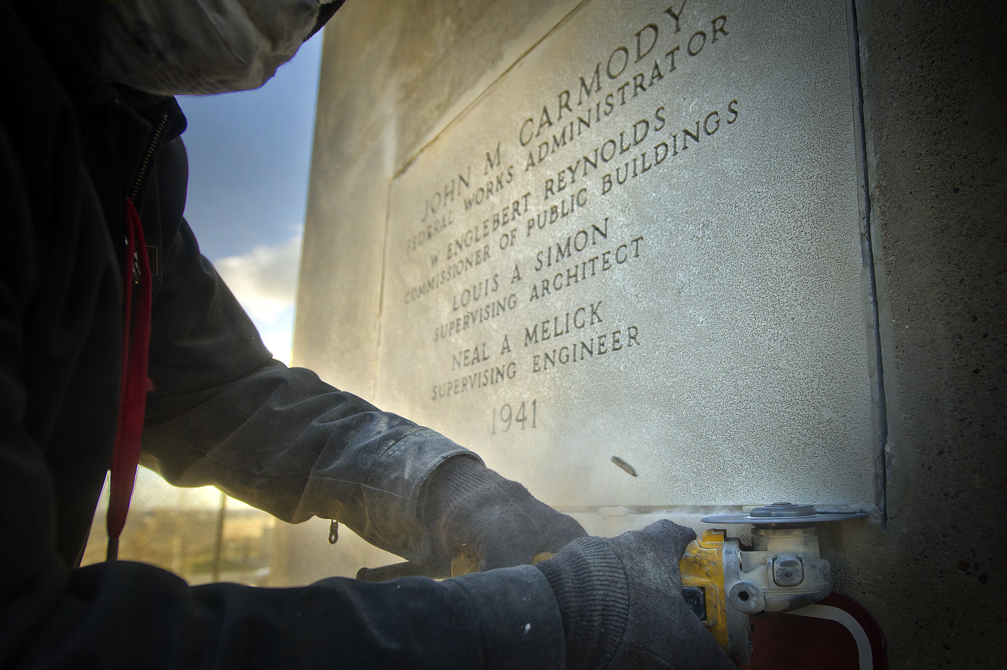 ARLINGTON, Va. (Jan. 18, 2012) Contractors grind away at a cornerstone located at the Navy Annex as Washington Headquarters Services, in coordination with the Department of the Navy, oversees a the historical stone's removal, representing the upcoming demolition of the entire Navy Annex building. The land where the historical building has been located will be used for a proposed heritage center and black history museum along with additional space for Arlington National Cemetery. (U.S. Navy photo by Mass Communication Specialist 2nd Class Todd Frantom/Released)